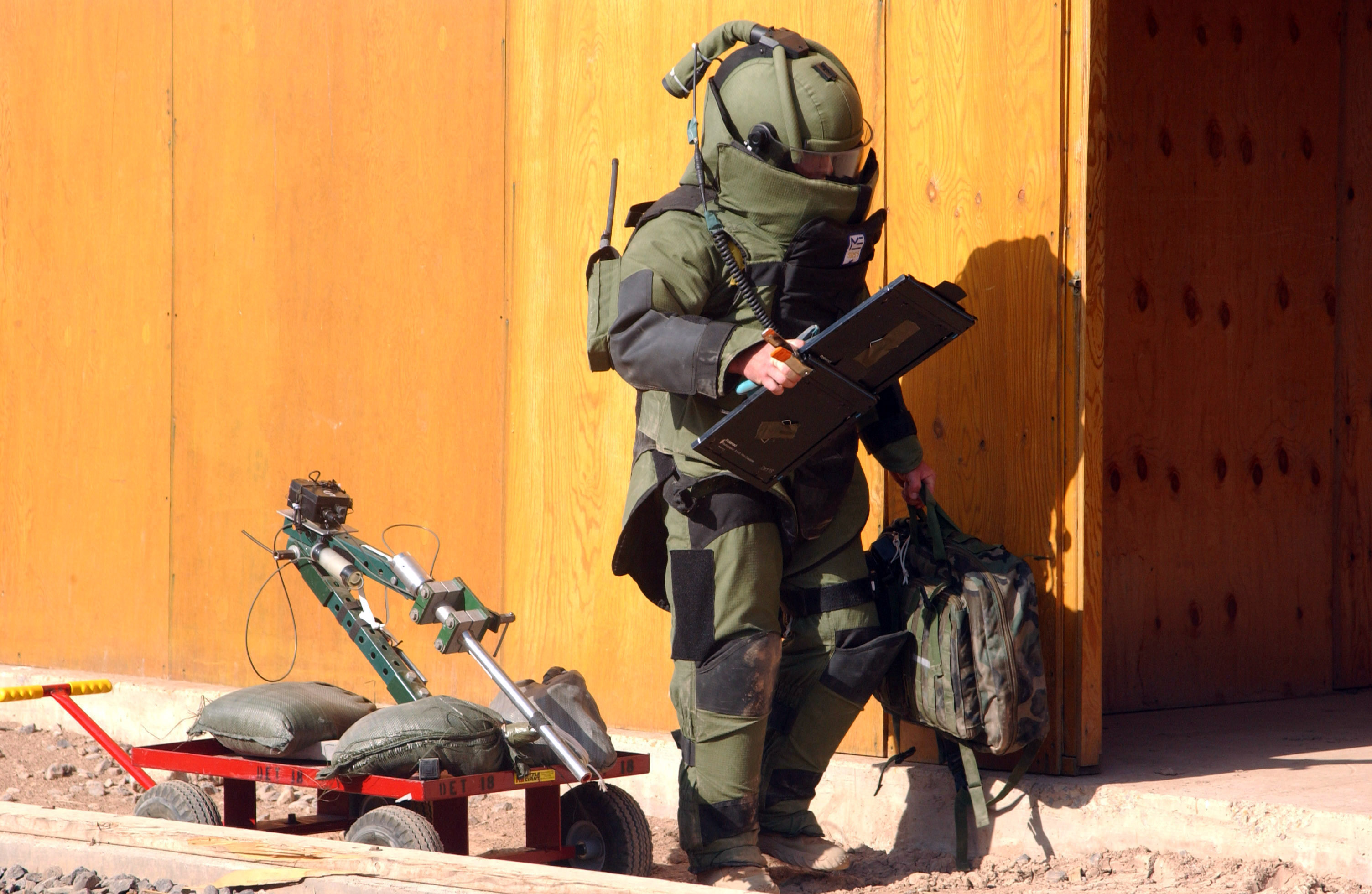 Camp Lemonier, Djibouti (Oct. 26, 2004) - A technician assigned to Navy Explosive Ordnance Disposal Mobile Unit Eight (EODMU-8), Detachment Eighteen, carries his equipment into a training facility during a live exercise. EODMU-8, Det. 18, based at Naval Air Station Sigonella, Sicily, deployed in October to Camp Lemonier, Djibouti, to support anti-terrorism missions with the Combined Joint Task Force (CJTF) "Horn of Africa." The unit will provide training in bomb detection, while ensuring camp safety by responding to threats, and monitoring main camp facilities, including the flight line and supply areas. U.S. Navy photo by Journalist Seaman Joe Ebalo (RELEASED)